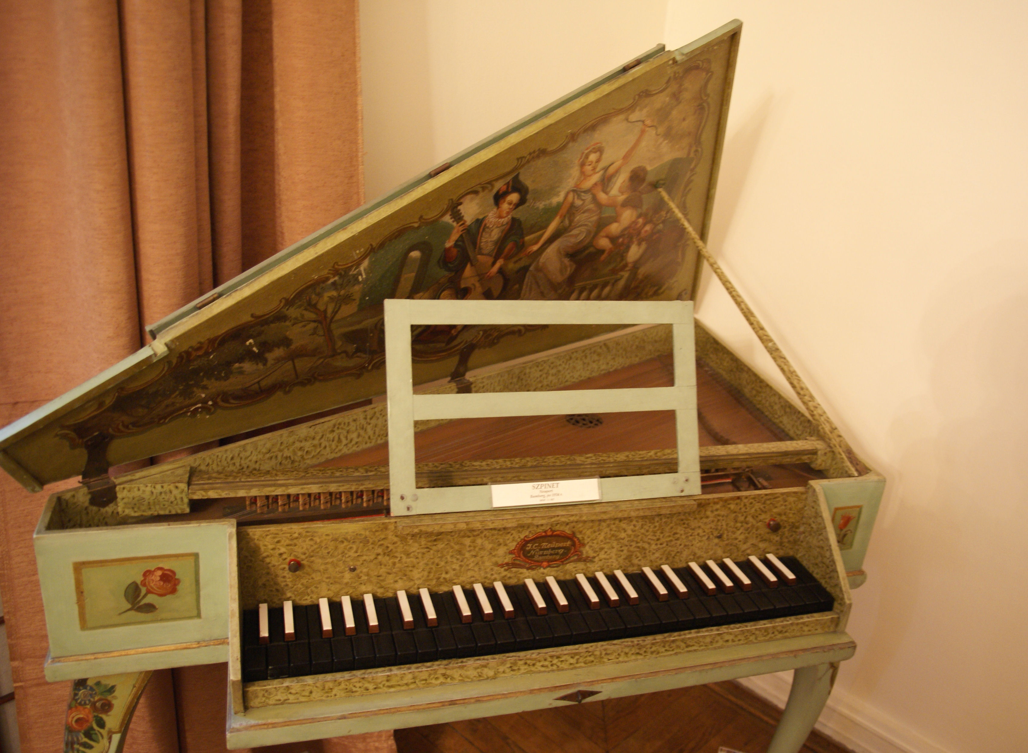 Spinet, Museum of Musical Instuments, Poznań, Poland